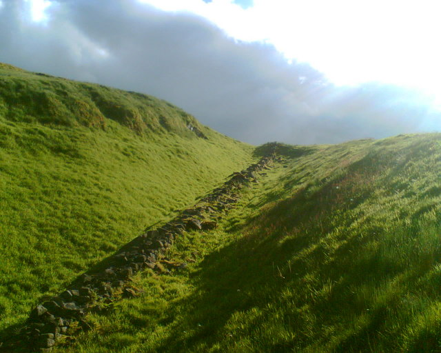 The Antonine Wall near Bar Hill Roman Fort, Twechar